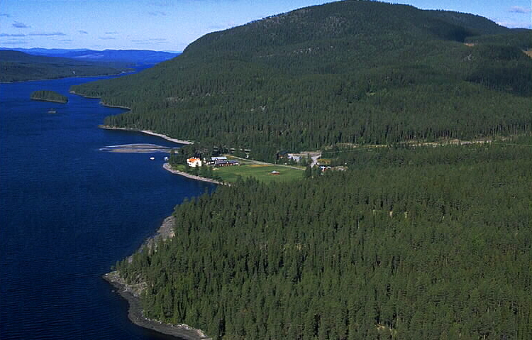 The village Ålviken and the lake Hotagen in Krokom municipality, Jämtland county, Sweden